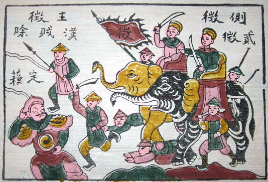 Trung sisters riding elephants